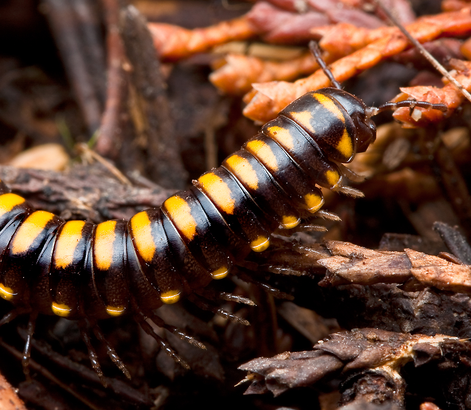 Thanks to Paul Marek for the specimen ID!! more about Paul here: collected by Casey Richart & Bill Leonard, Thuja + Abies + Tsuga habitat, St Joe National Forest, Idaho